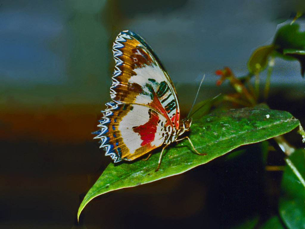 Cethosia hypsea hypsina - Callaway's Day Butterfly Center